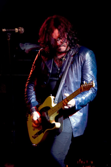 Jeff Martin and the Armada Price of Wales Bandroom November 2008